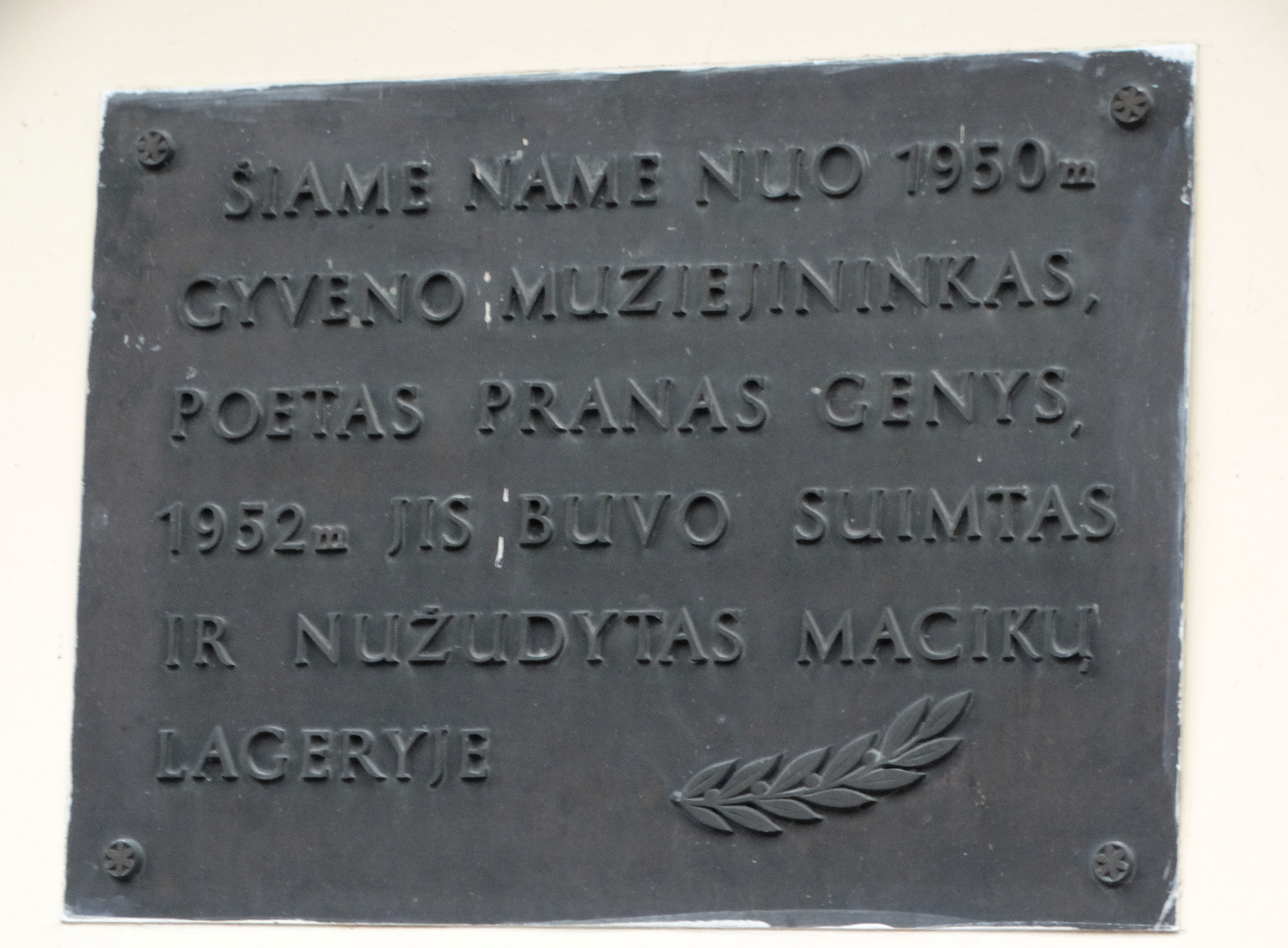 Memorial plaque to Pranas Genys in Plungė, Lithuania